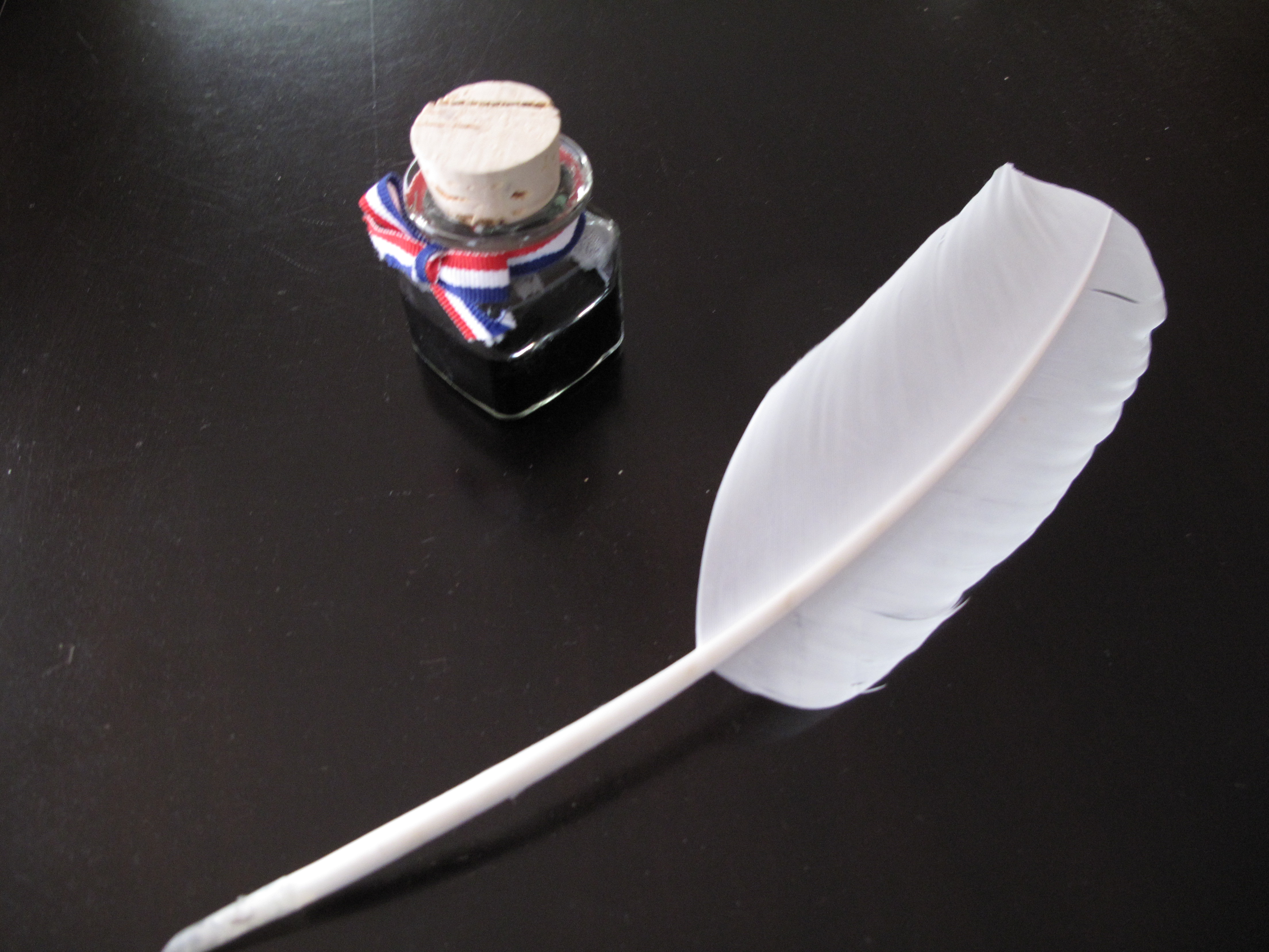 Quill pen